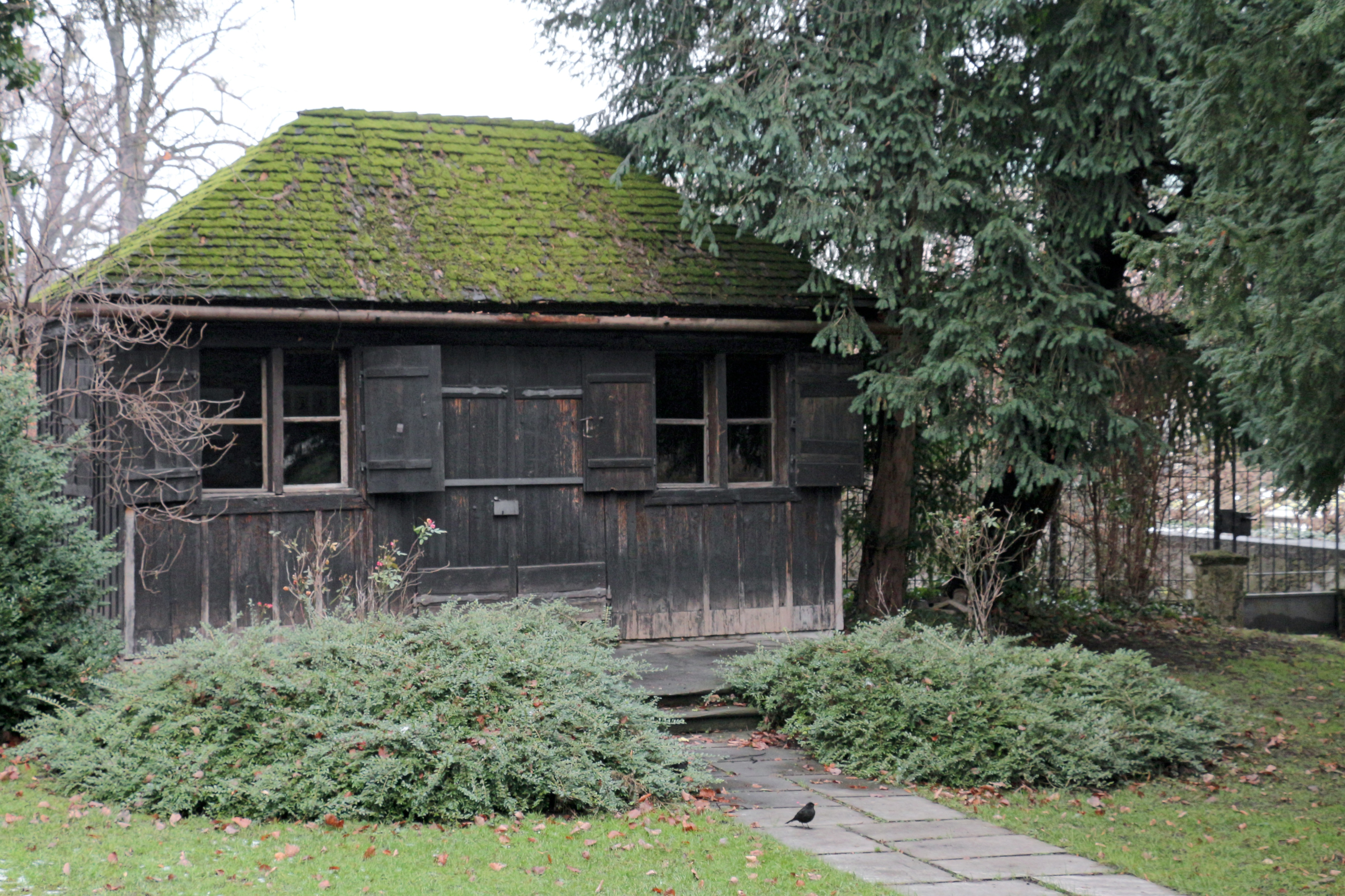 The so-called Magic Flute Lodge where Mozart is said to have composed his opera The Magic Flute in there. The hut stands in the back outside of Großer Saal at the International Mozart Foundation in Salzburg now.